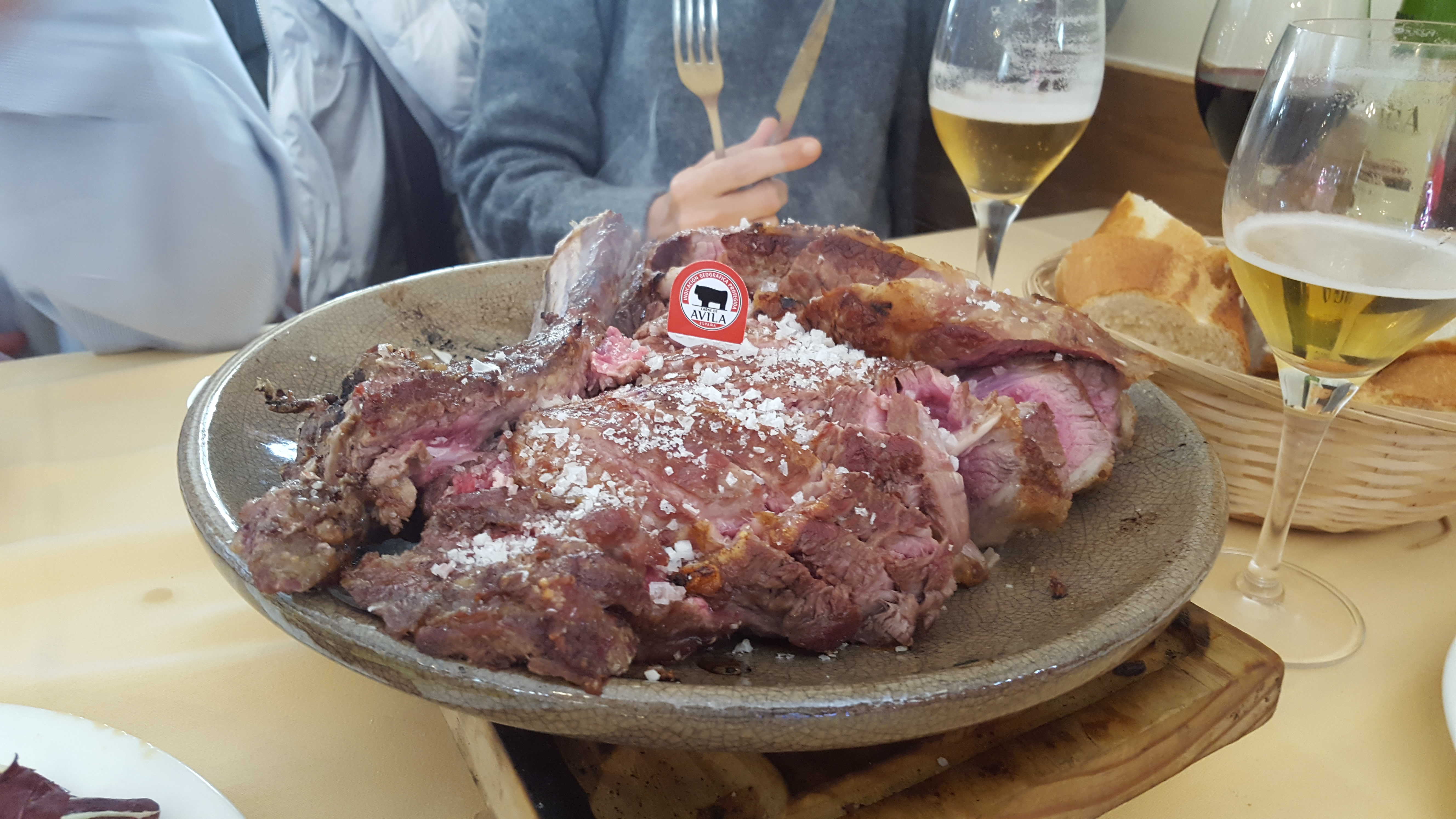 Chuletón de Ávila, beef from Ávila, Protected Geographical Indication, in La Torre Ávila Spain